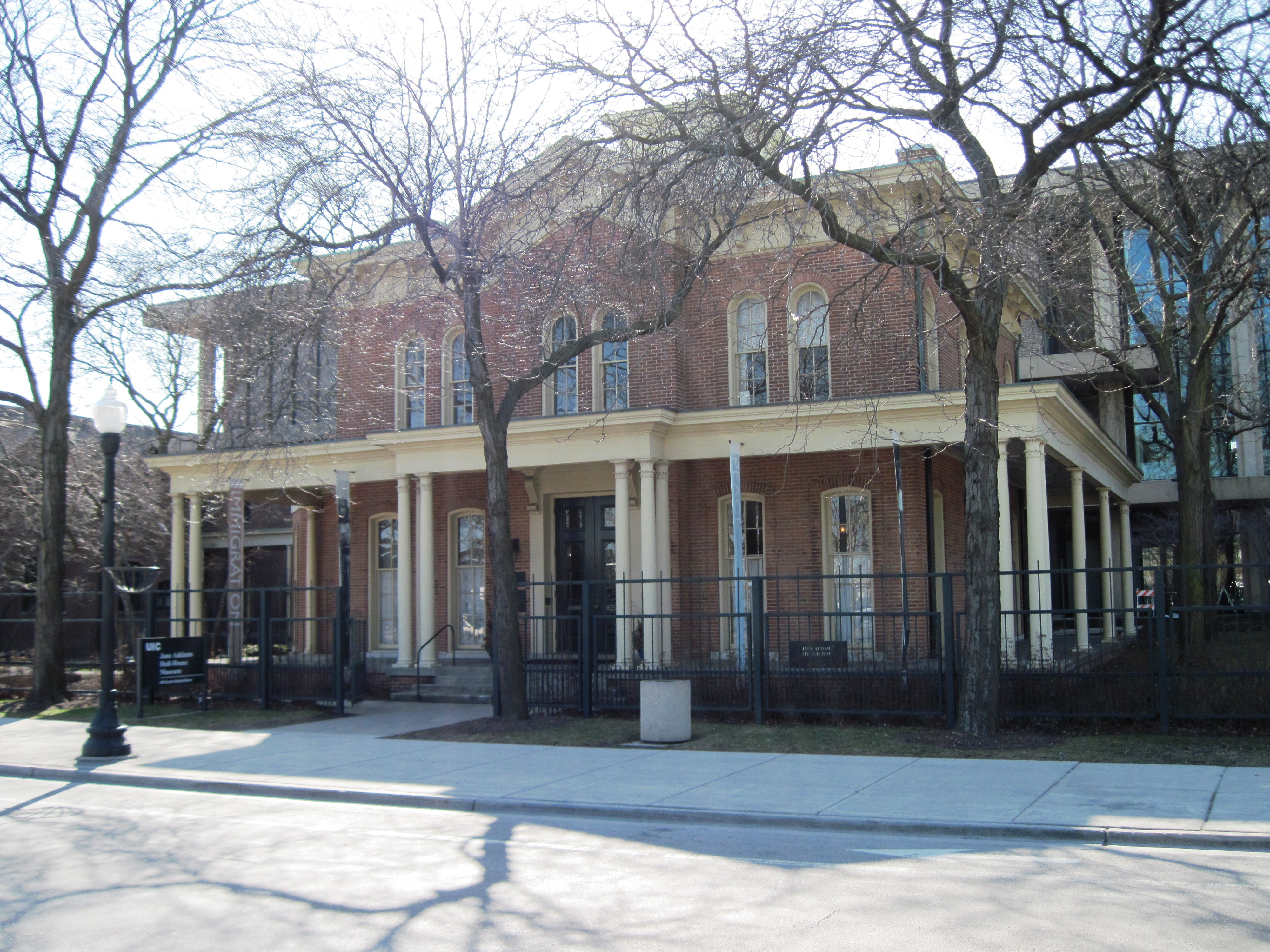 Hull House at the University of Illinois at Chicago